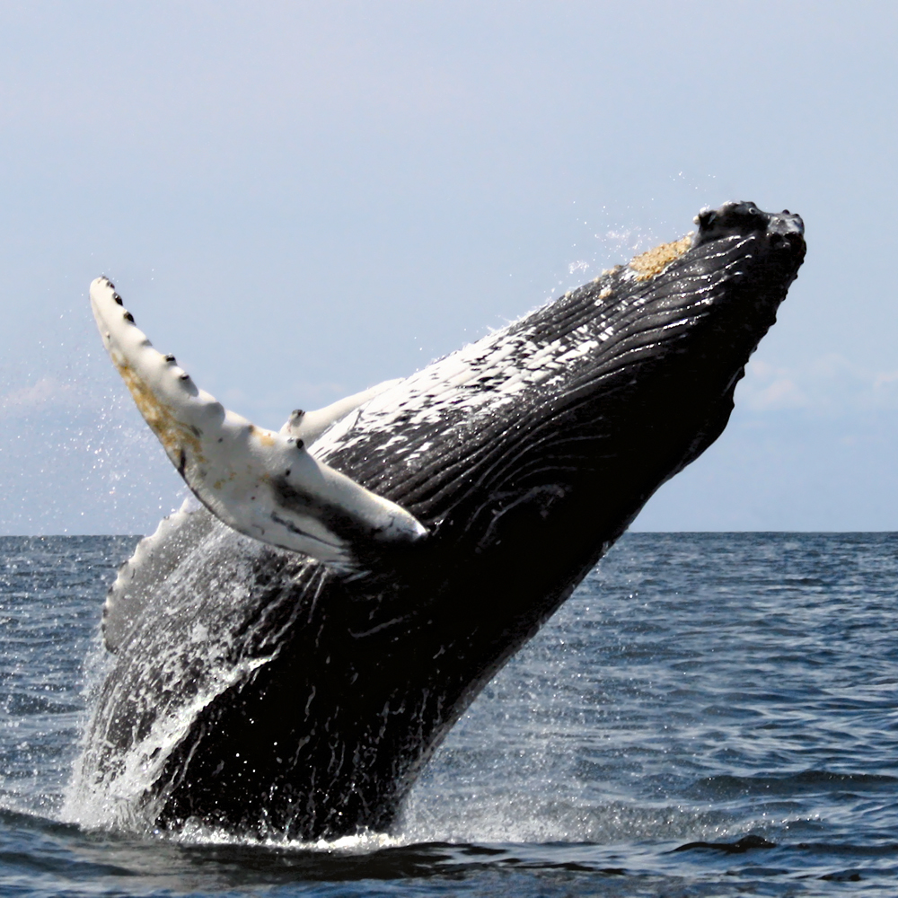 Humpback Whale, breaching, Stellwagen Bank National Marine Sanctuary